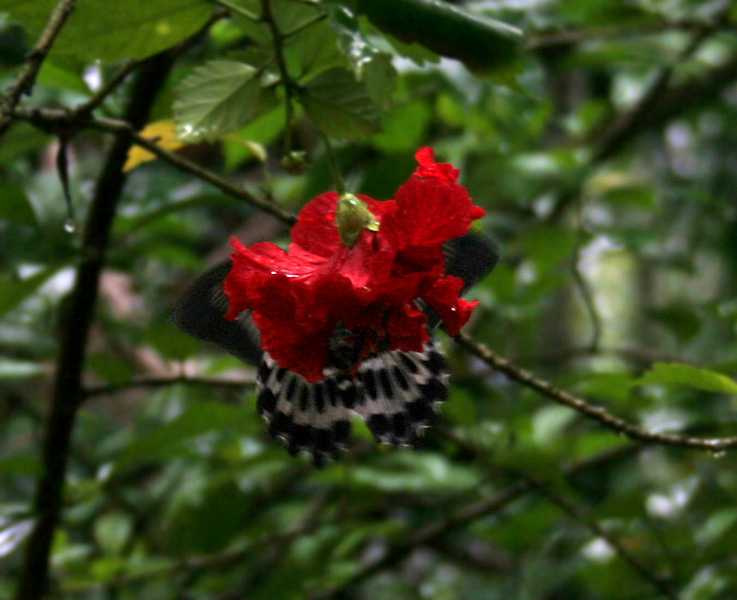 Blue Mormon Papilio polymnestor in Goa, India.